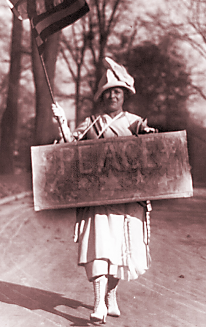 Woman marching with peace sign and U.S. flag, disarmament conference, Washington, D.C.